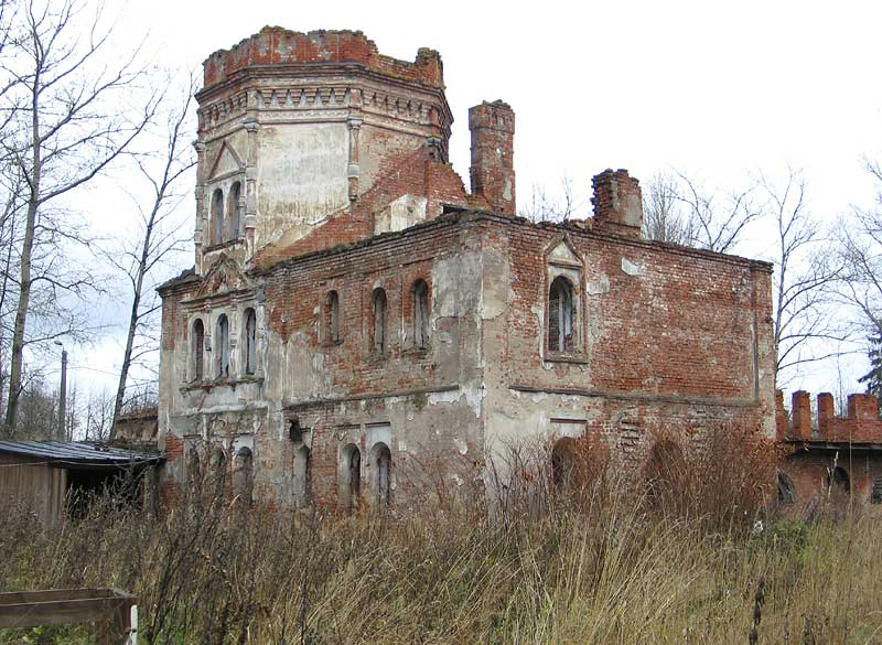 Feodorovsky gorodok in Tsarskoye Selo. The Pink tower. Courtyard view.